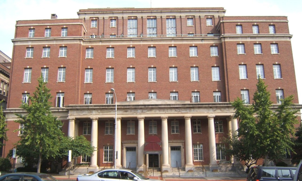 Former Wills Hospital, aka Wills Eye Hospital, now The Colonnade Apartments, 1601 Spring Garden Street, Philadelphia, PA 19130